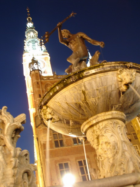 Main Town of Gdańsk. Neptune Fontain at night. Foto: Cornelius Schumacher, Gdansk 2005